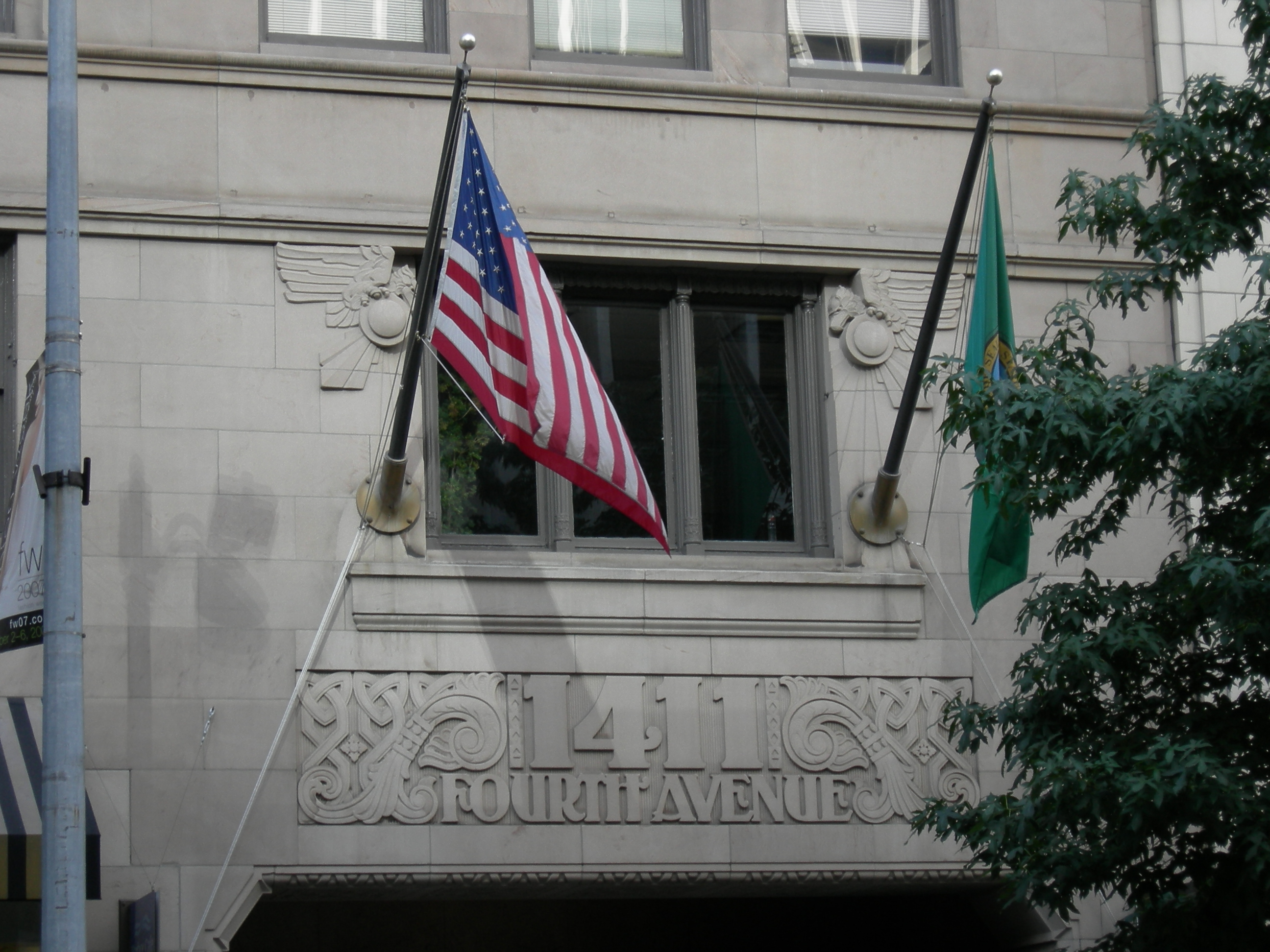 1411 Fourth Avenue ("The 1411 Fourth Building"), Seattle, Washington, USA. The building, designed by Robert C. Reamer and completed in 1929, is on the National Register of Historic Places, ID #91000633.